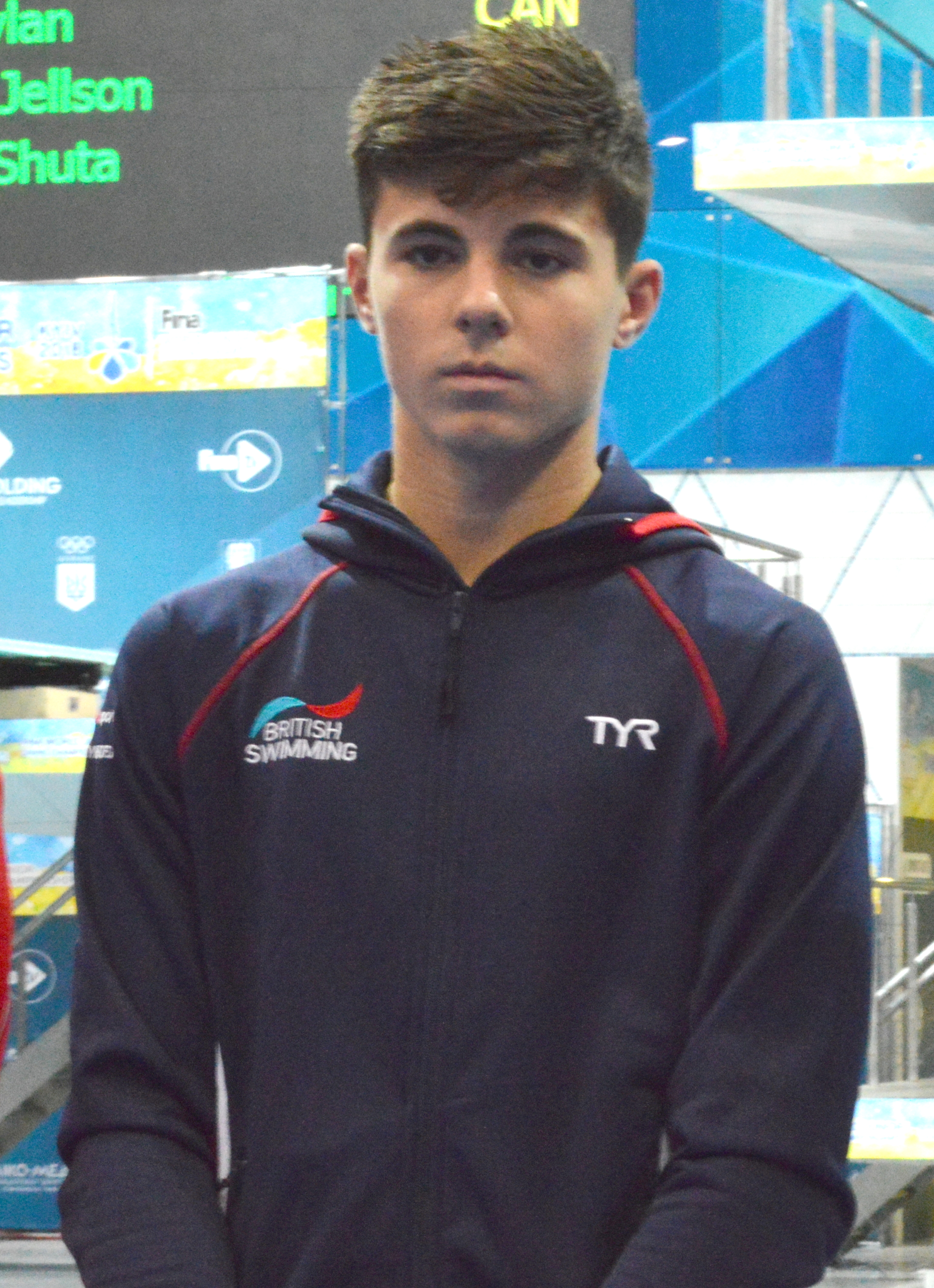 British diver Matthew Dixon at the 22nd FINA World Junior Diving Championships in Kyiv, July 2018